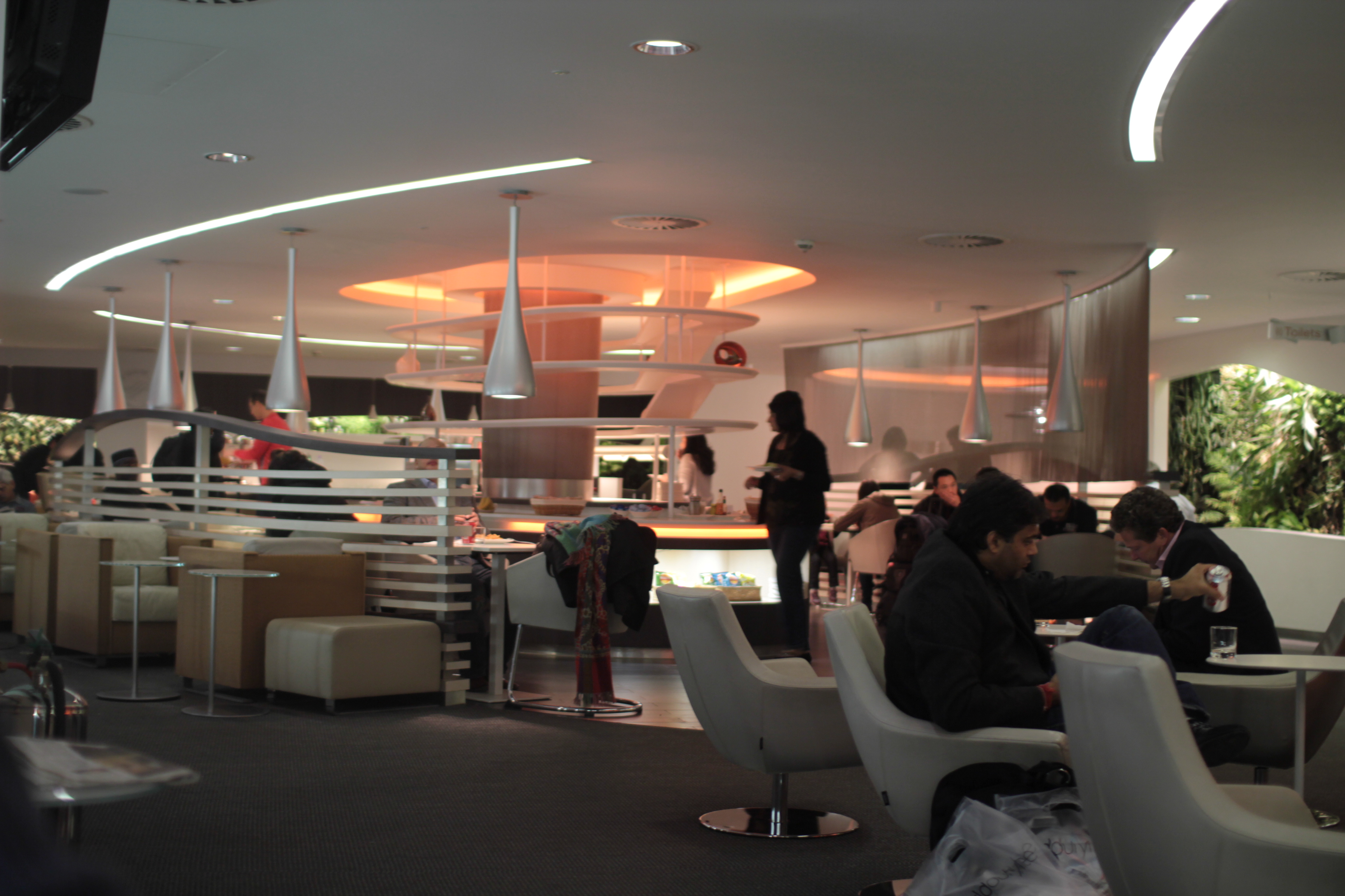 Skyteam lounge in terminal 4 at Heathrow